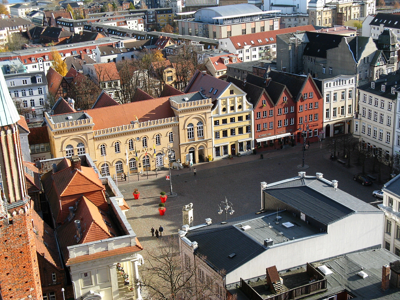 Market with town hall in Schwerin, Germany, seen from Schwerin Cathedral